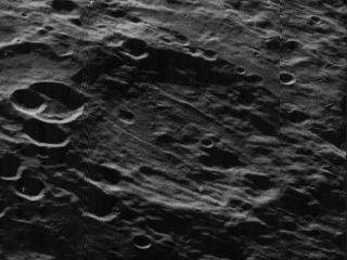 Oblique view of Blackett, on the far side of the moon, facing west.